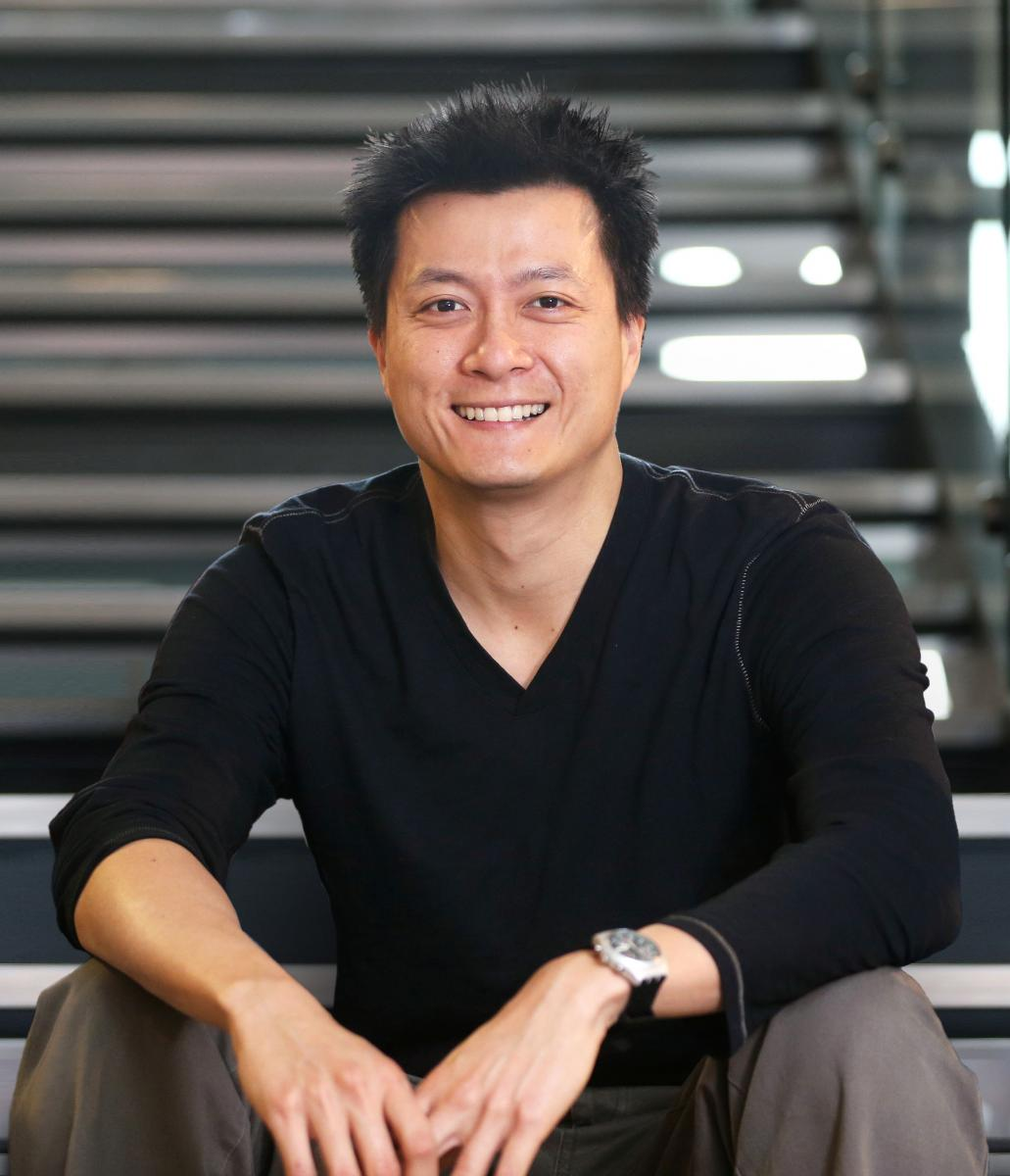 Jorge Cham, creator of the “Piled Higher and Deeper” comic strip